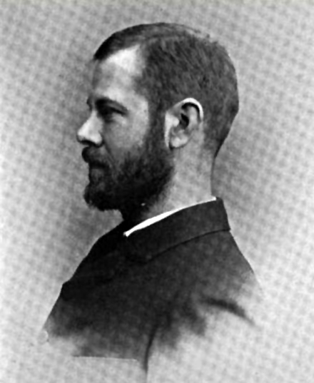 William Paine Sheffield, Jr., US Representative from Rhode Island